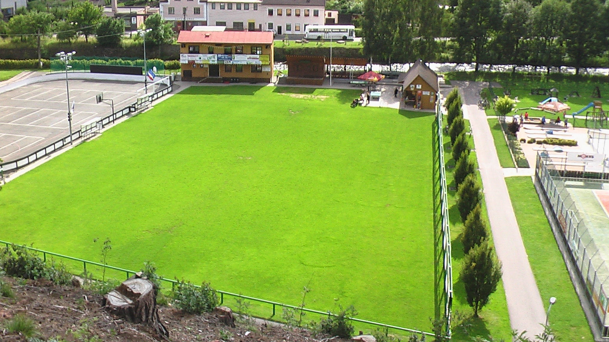 Football field in Havlovice.